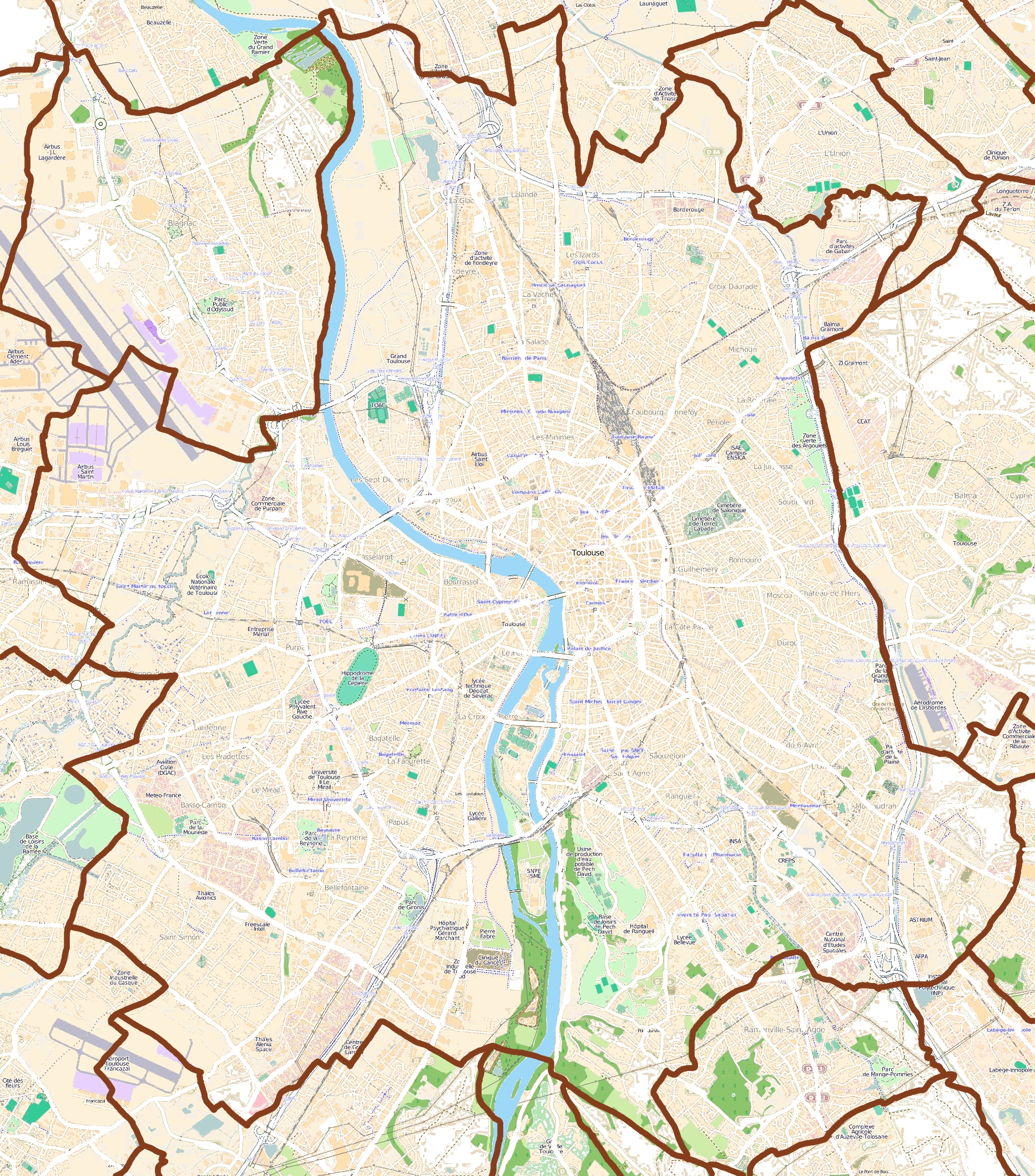 Map of Toulouse, 31000, France This map of Toulouse was created from OpenStreetMap project data, collected by the community. This map may be incomplete, and may contain errors. Don't rely solely on it for navigation.